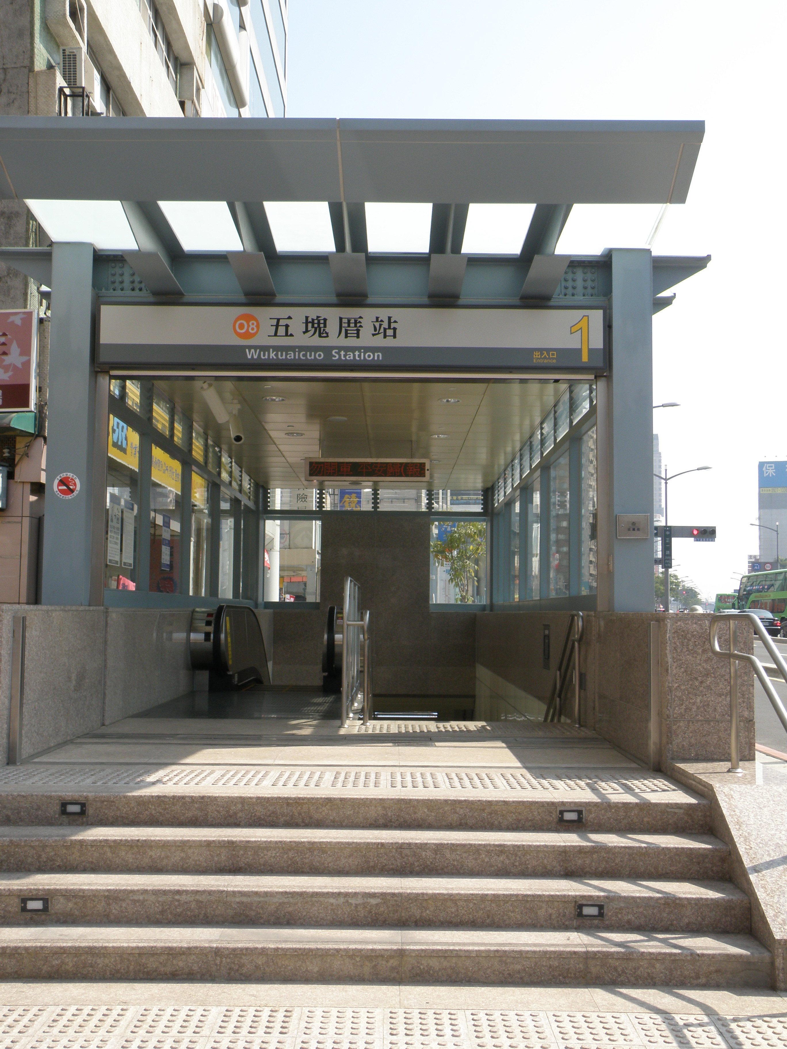 Exit No. 1 of Wukuaicuo Station, Kaohsiung Mass Rapid Transit.